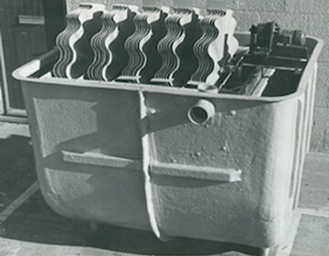 KLARGESTER's (Now Kee Process Ltd) First Domestic RBC (with the lid off) Fresh out of the Factory in 1955.